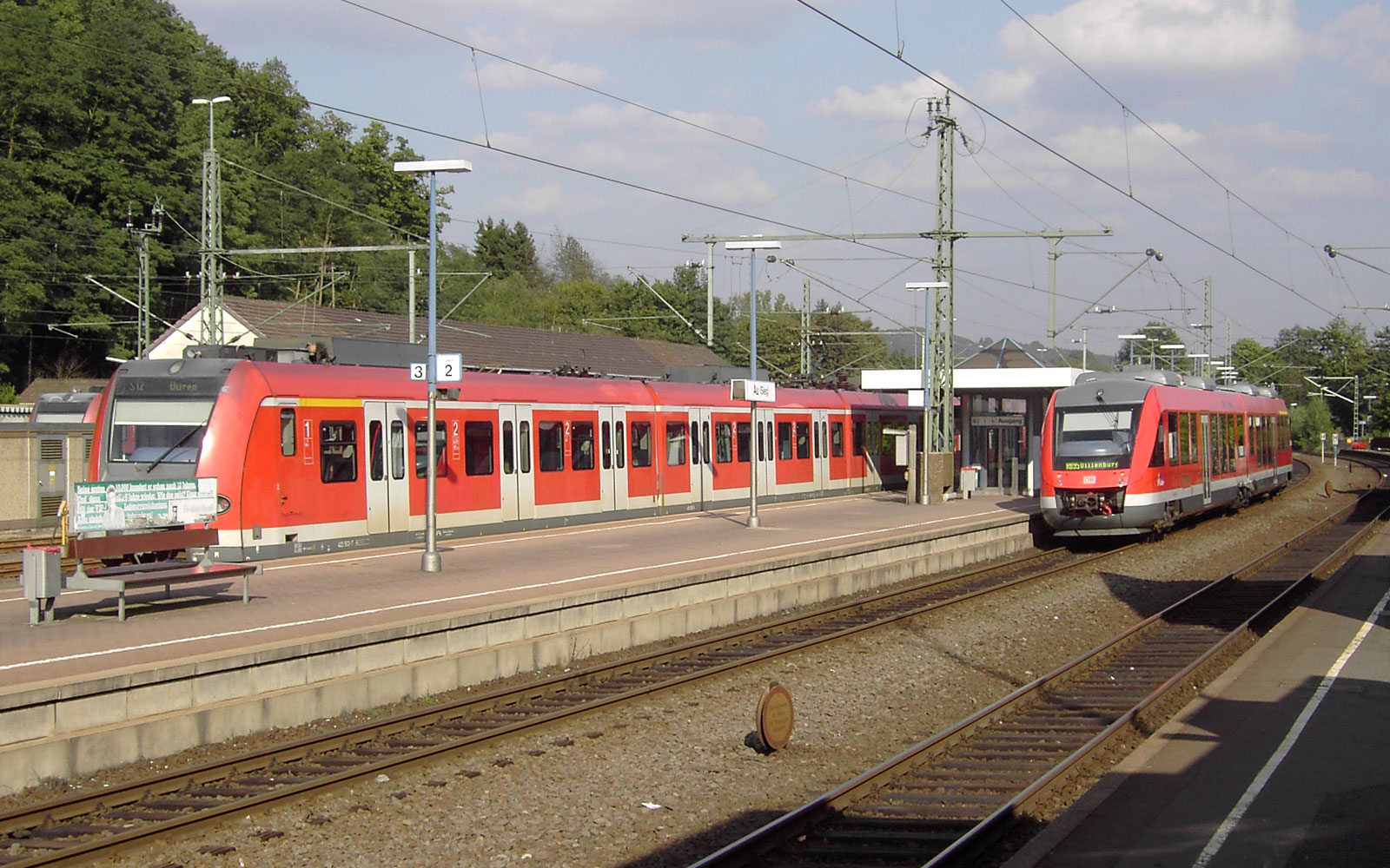 Class 423 EMU and LINT DMU meet at Au(Sieg) station. own photo